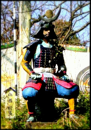 Konishi Yukinaga figure in Japan, capture at 2008年05月24日(土)